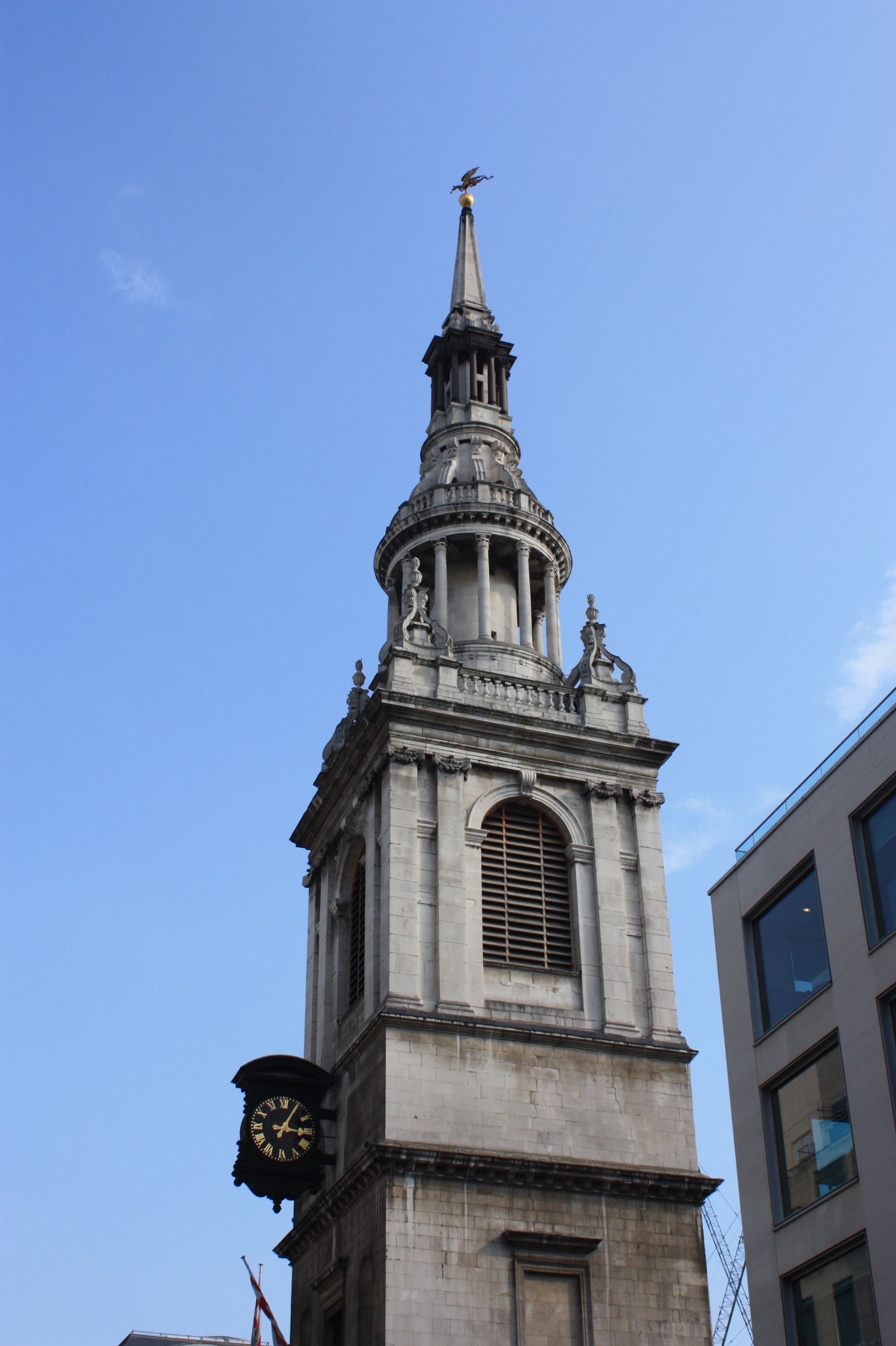 Spire of St Mary-le-Bow parish church, London